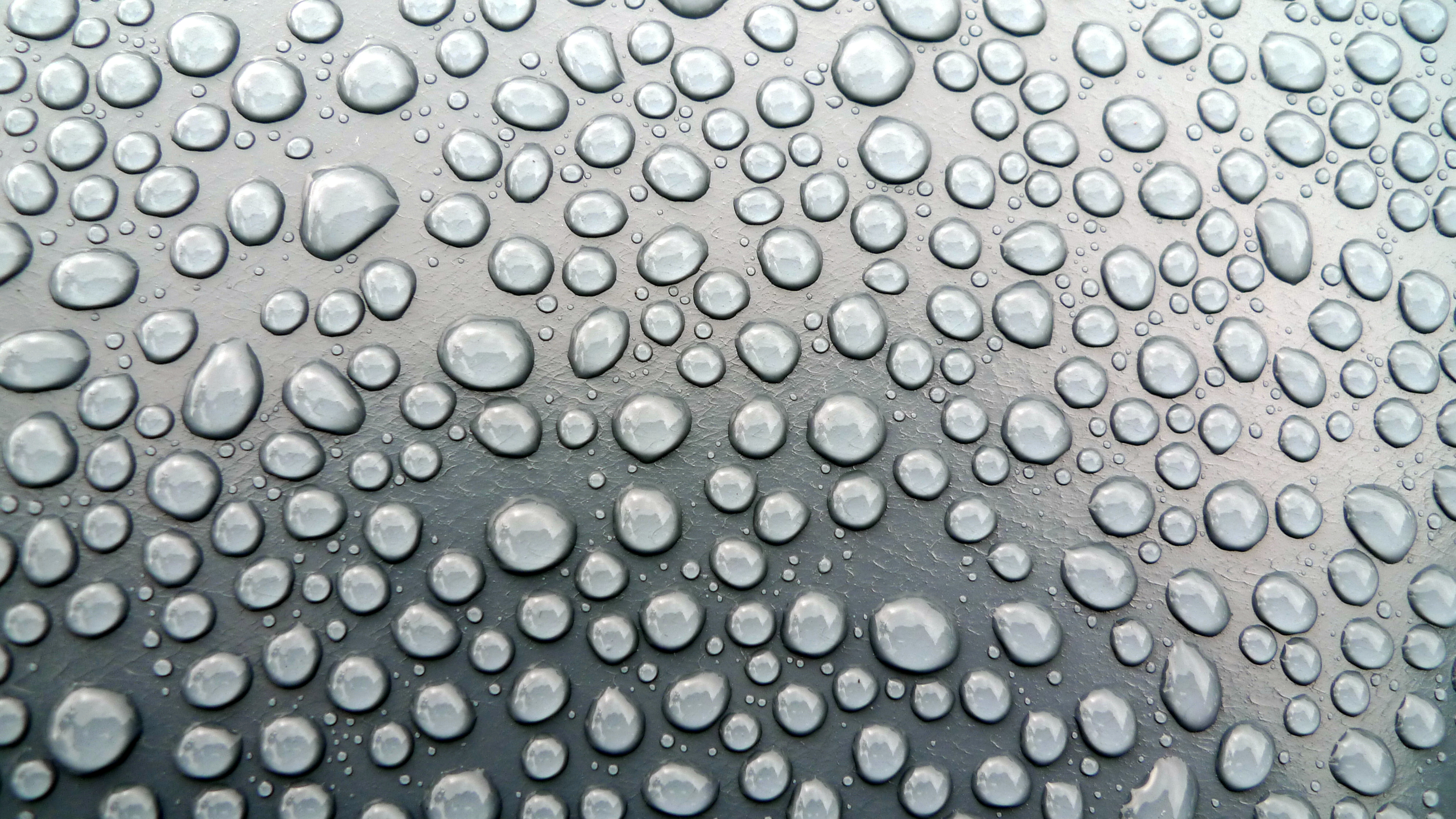 drops and surface tension